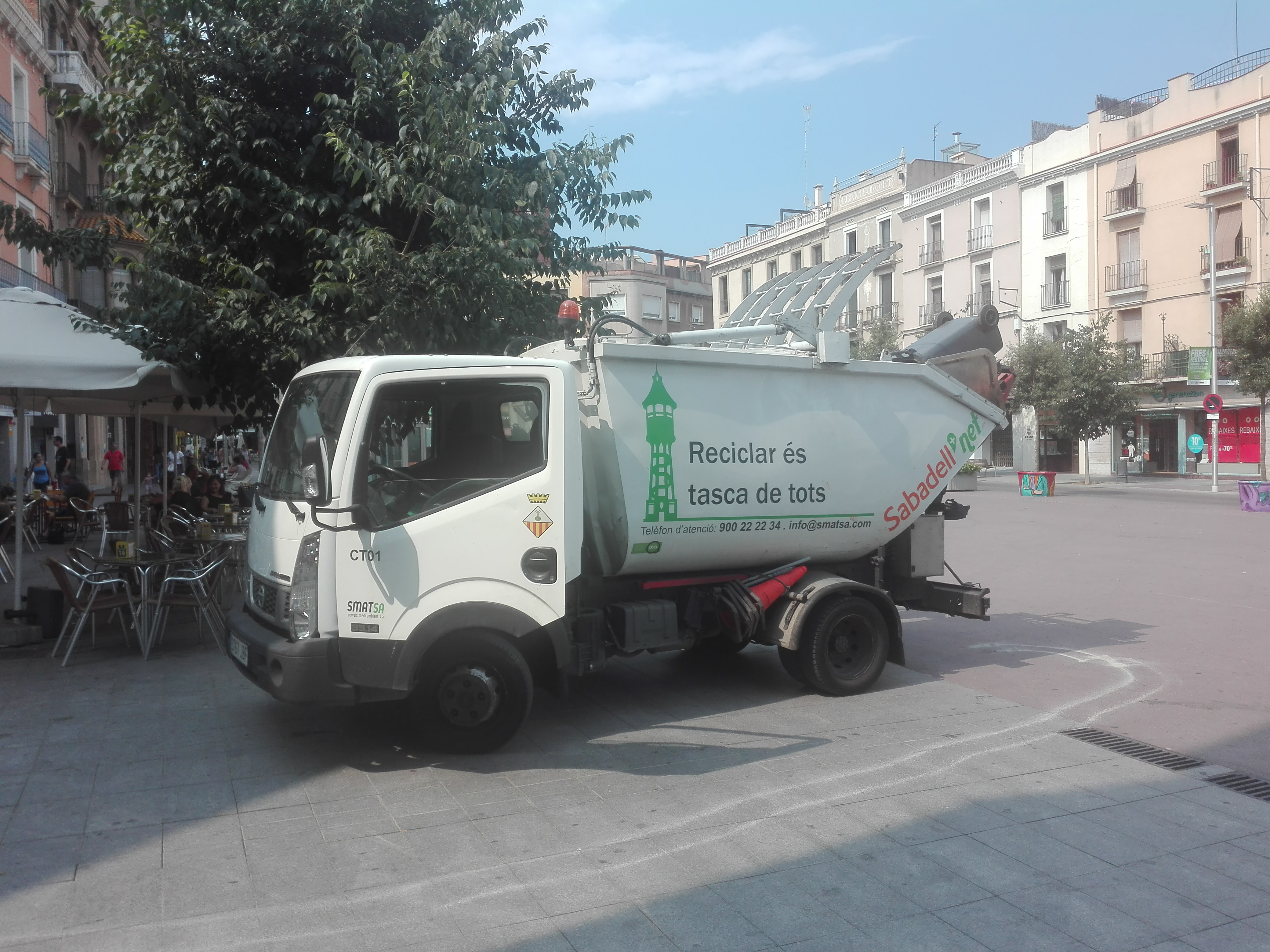 Recycling garbage truck of SMATSA corporation.